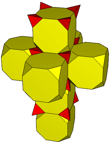 Truncated tesseract net